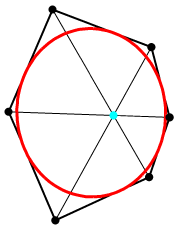 Brianshon's theorem